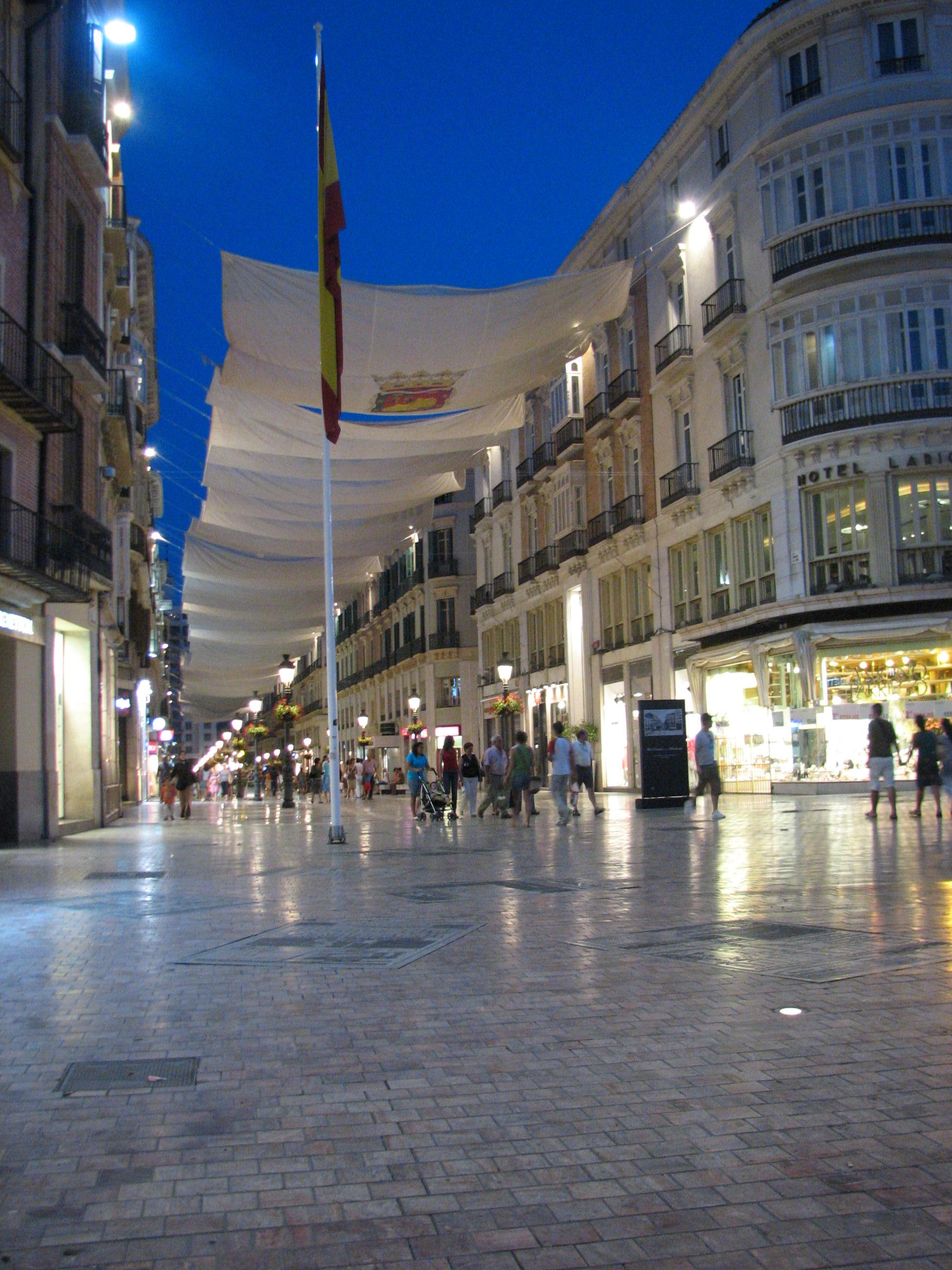 Calle Larios, Málaga, Spain